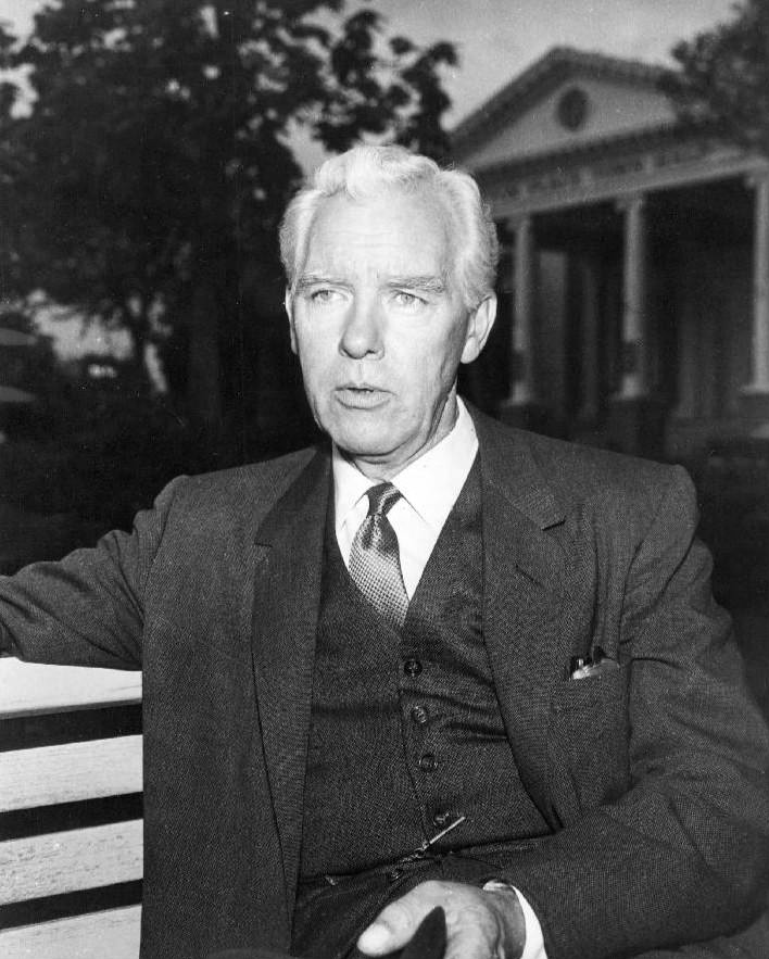 Photo of Warner Anderson in the role of Matthew Swain in the American television program Peyton Place.